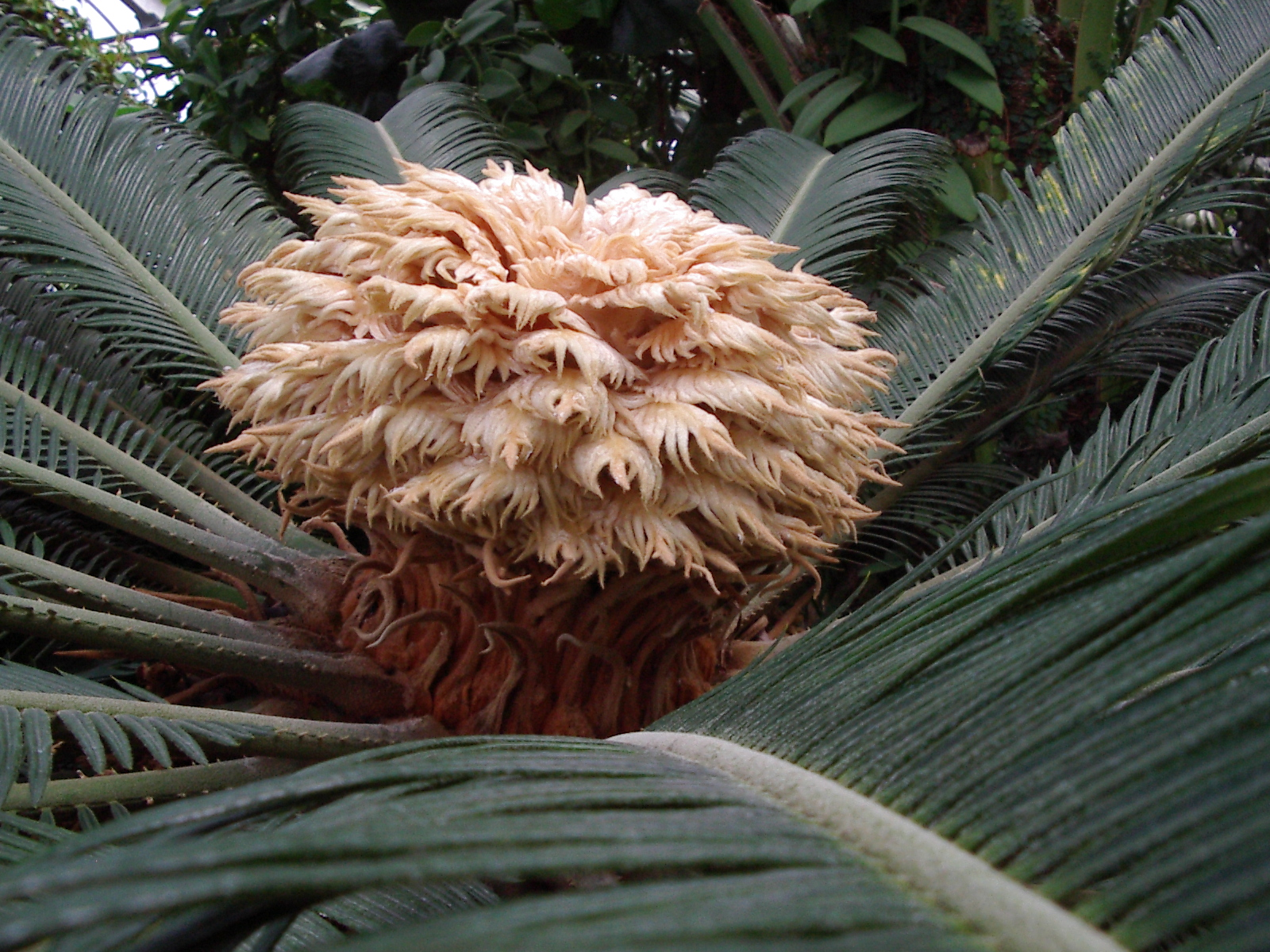 The female reproductive structure of the sago palm (Cycas revoluta) - from the Montreal Botanical Gardens.Sago Palm